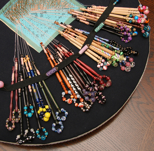 The photograph of the bobbin lace tool of the British type.